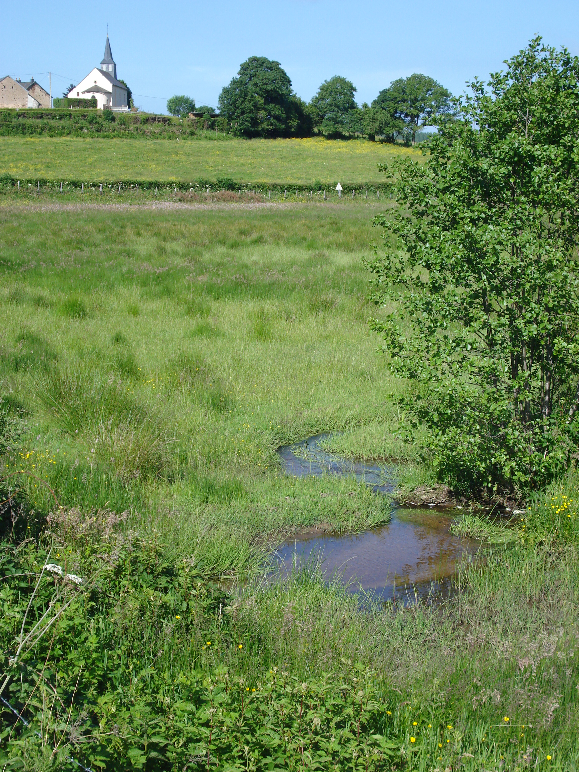 Landscape at Gien-sur-Cure (Nièvre, Fr)